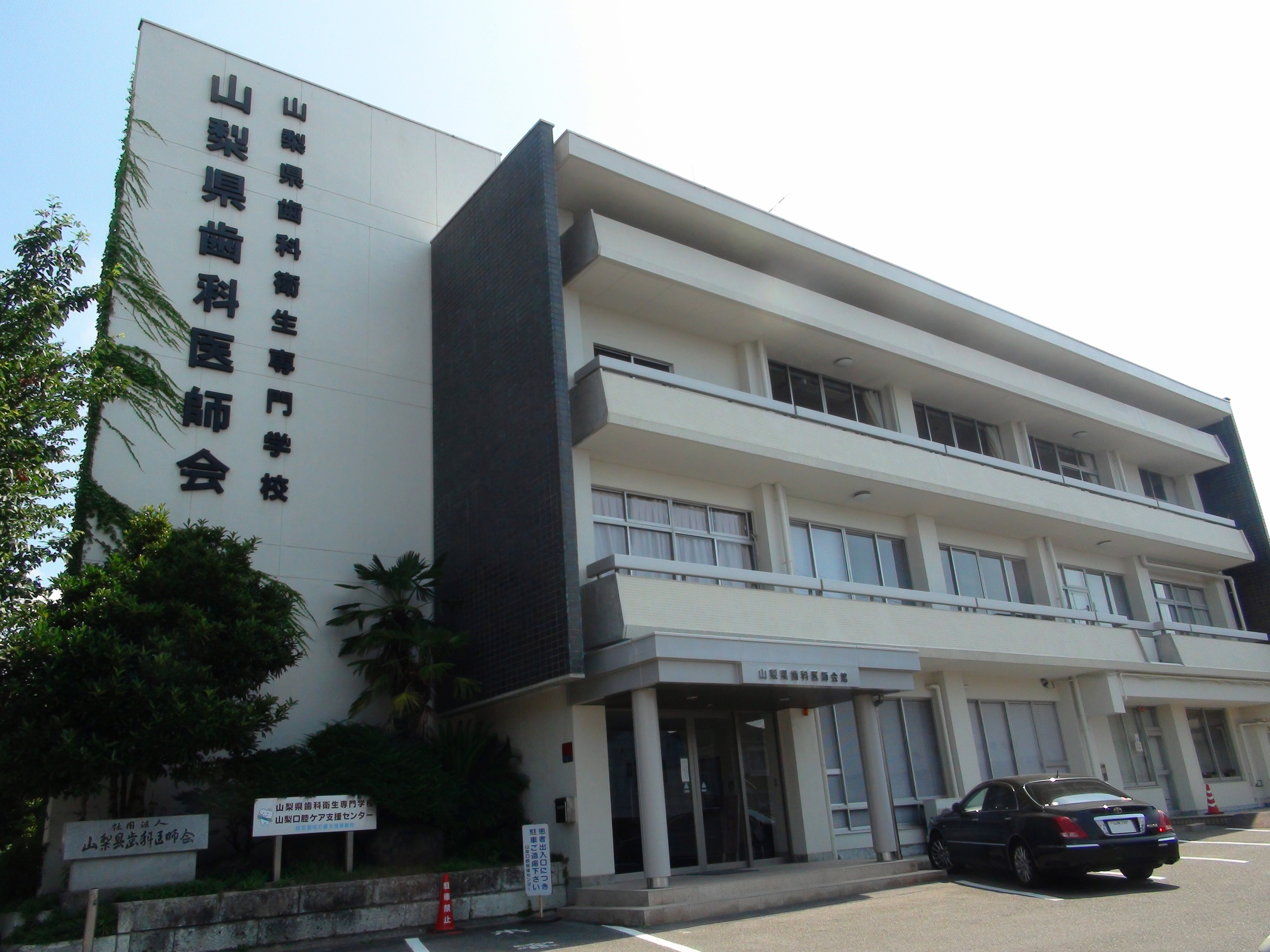 Yamanashi Dental Association